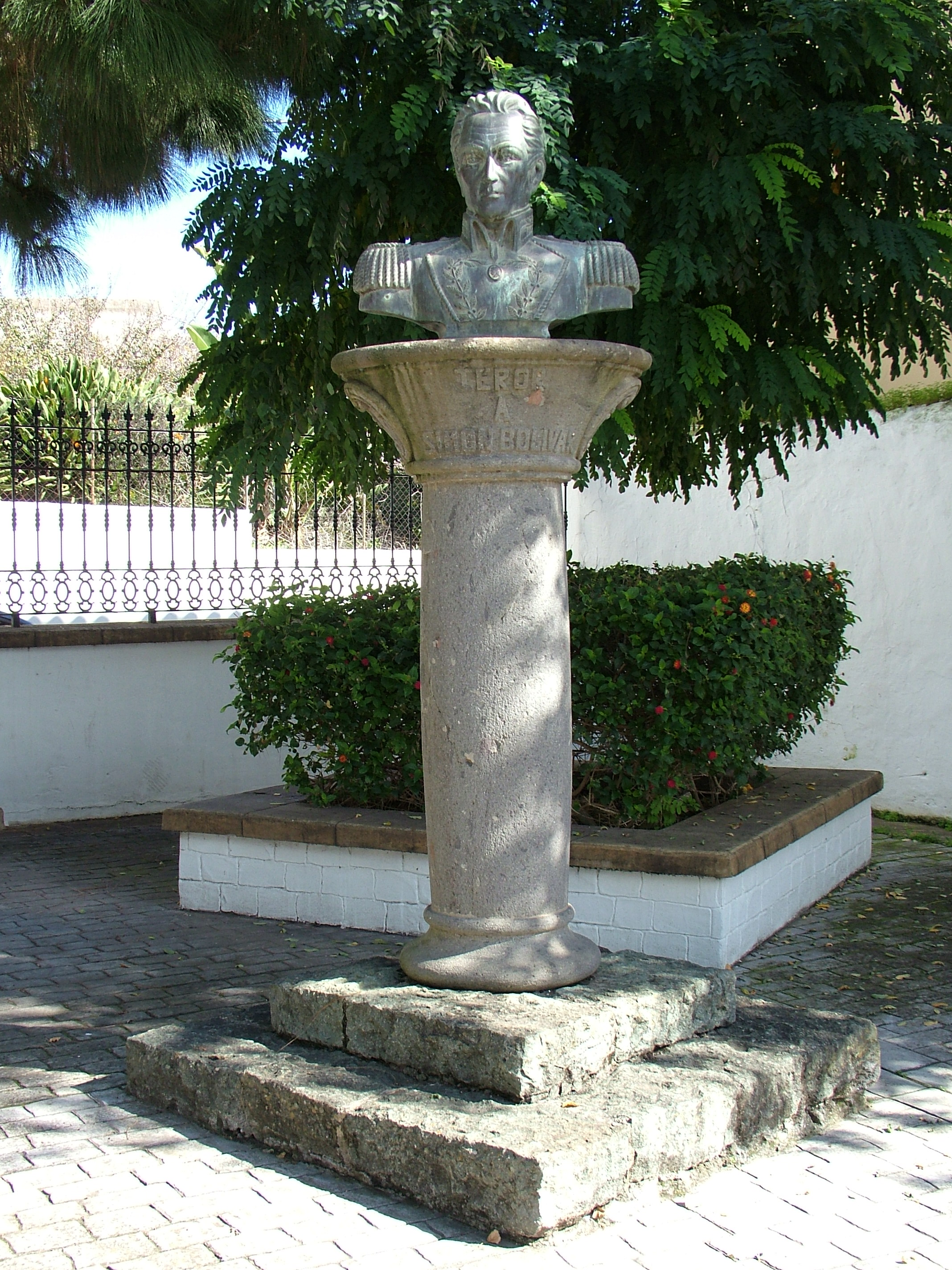 Bust of Simon Bolivar in Teror, Gran Canaria